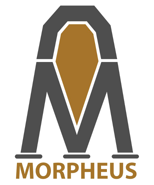 Logo for NASA's Project Morpheus